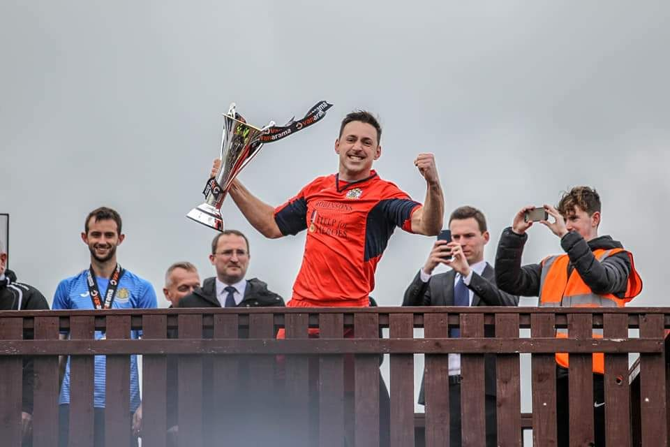 County goalkeeper Ben Hinchliffe with the National League North trophy